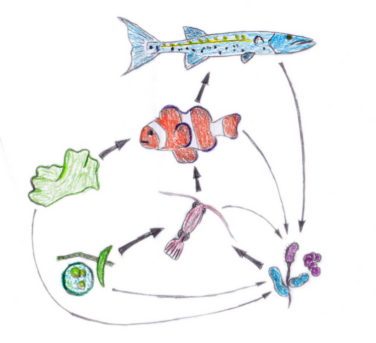 Water food web